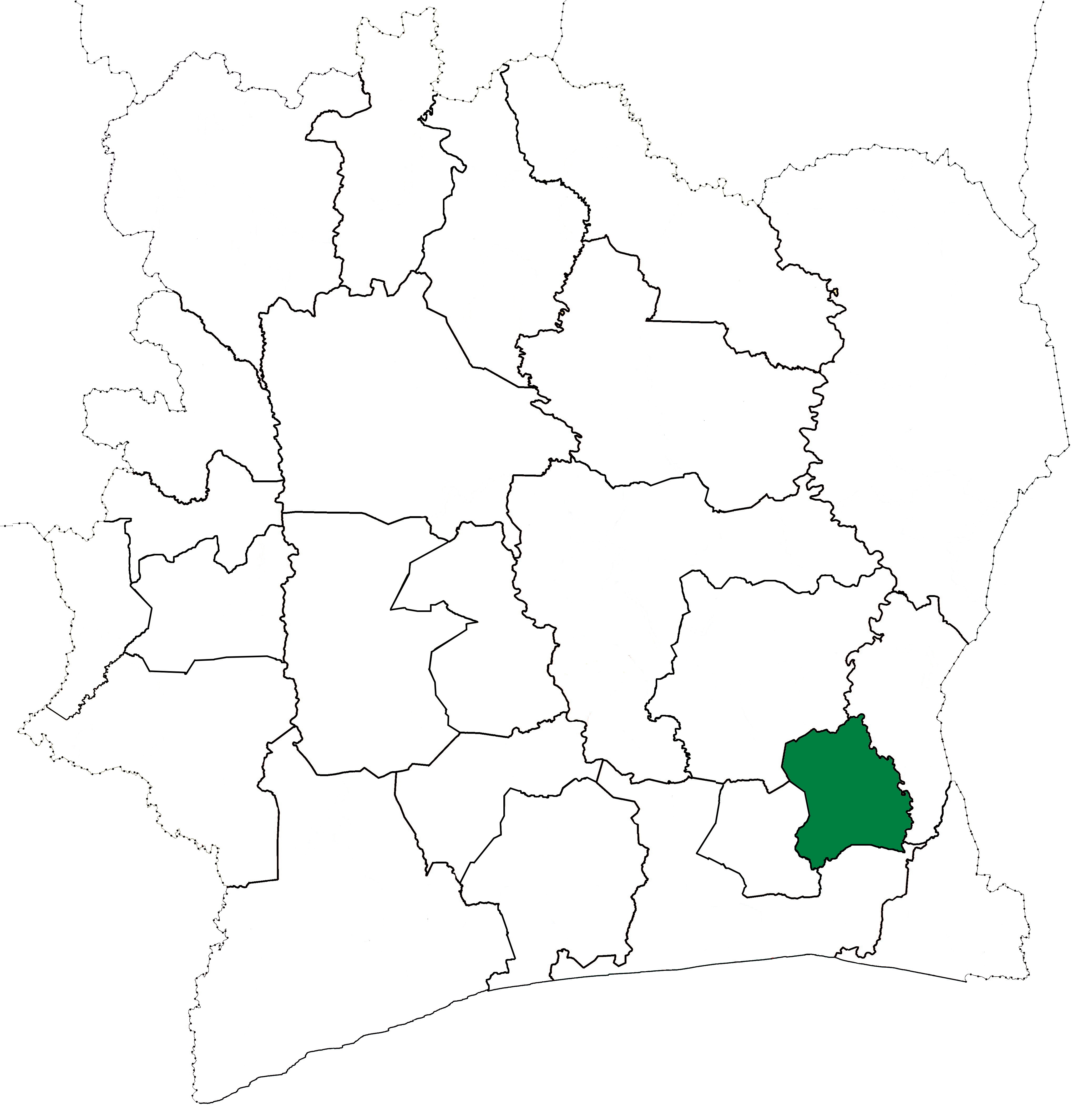 Locator map for Adzopé Department in Côte d'Ivoire when the 24 new departments were created in 1969. Adzopé Department kept these boundaries until 2005, but other departments began to be divided in 1974.